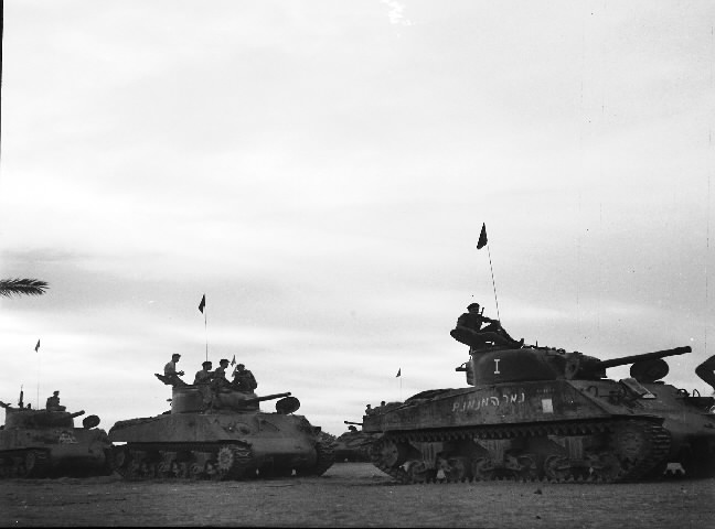 Following countless terrorist incursions by “fedayeen” infiltrating the shared border with Egypt, Israel was forced to adopt measures to halt these attacks. On October 29, 1956, the Sinai Campaign was launched. In a sweeping operation of 100 hours, the Israel Defense Forces took control of the entire Sinai peninsula. The Sinai Campaign was launched with the successful paratroop landing into the eastern approaches of the Mitla Pass near the Suez Canal. Pictured above are Sherman Tanks advancing toward The Mitla Pass. Photo: IDF photo archives. The Israel Defense Forces Facebook • blog • Twitter